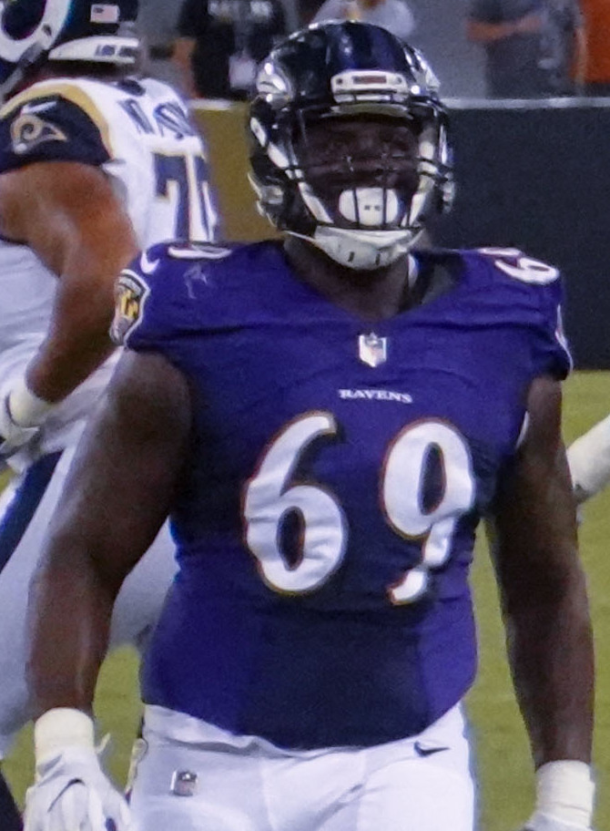 2018 Los Angeles Rams season